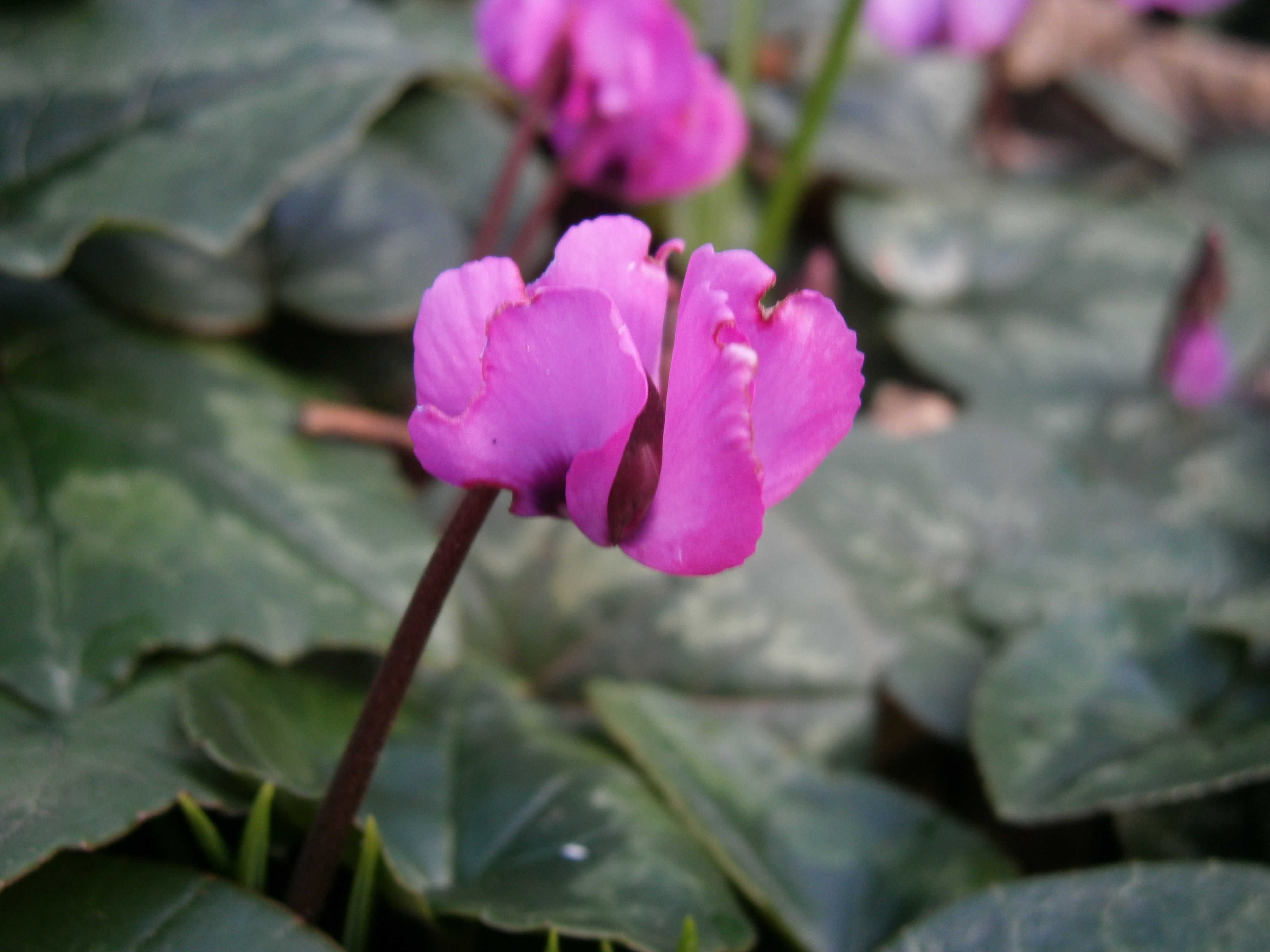 Cyclamen coum - dark pink